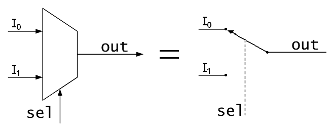 Schematic of a Multiplexer I created this image. I hereby am placing it in the public domain. --Lenehey Template:Nct